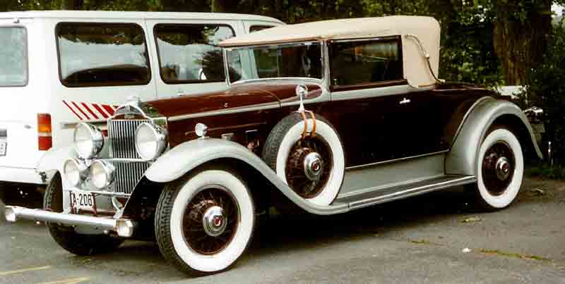 Packard Eighth Series 833 Standard Eight Convertible Coupé 1931